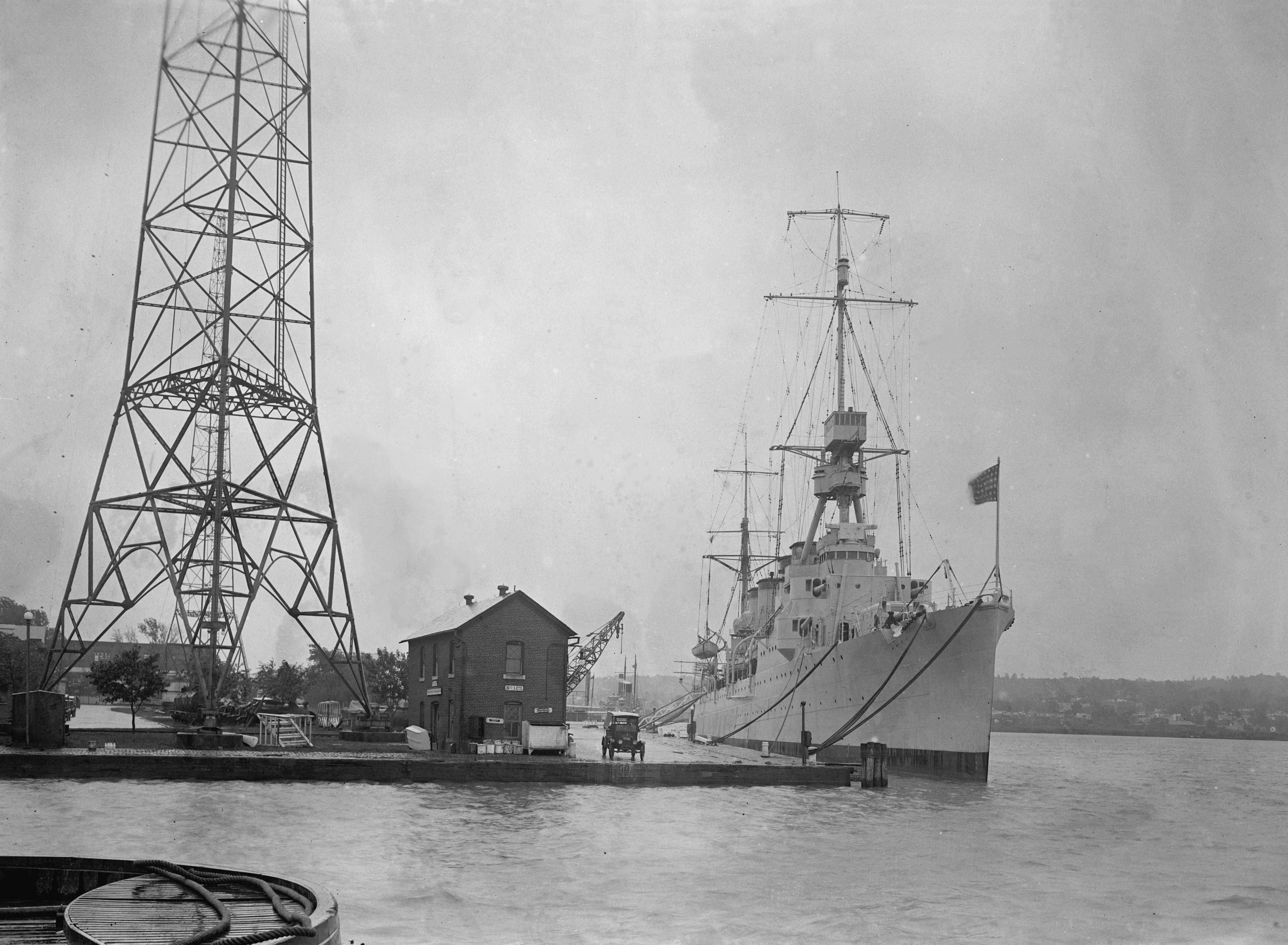 The U.S. Navy light cruiser USS Trenton (CL-11) at the Washington Navy Yard on 29 September 1924. She had departed New York harbour on 24 May for her shakedown cruise in the Mediterranean Sea. On 14 August, while in she steamed in the Red Sea from Port Said, Egypt, to Aden, Arabia, Trenton was ordered to Bushire, Persia, where she arrived on 25 August. Here she took aboard the remains of Vice Consul Major Robert Imbrie who had been murdered on 23 July. Following stops at Suez and Port Said, Egypt, and at Villefranche, France, Trenton arrived at the Washington Navy Yard on 29 September 1924.